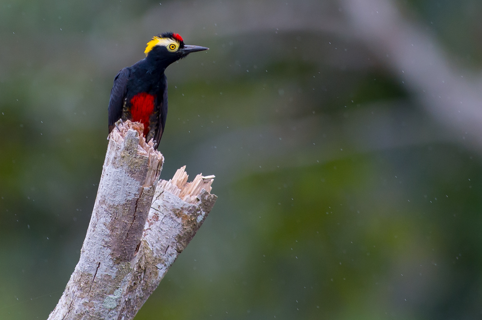 Melanerpes cruentatus Yellow-tufted Woodpecker